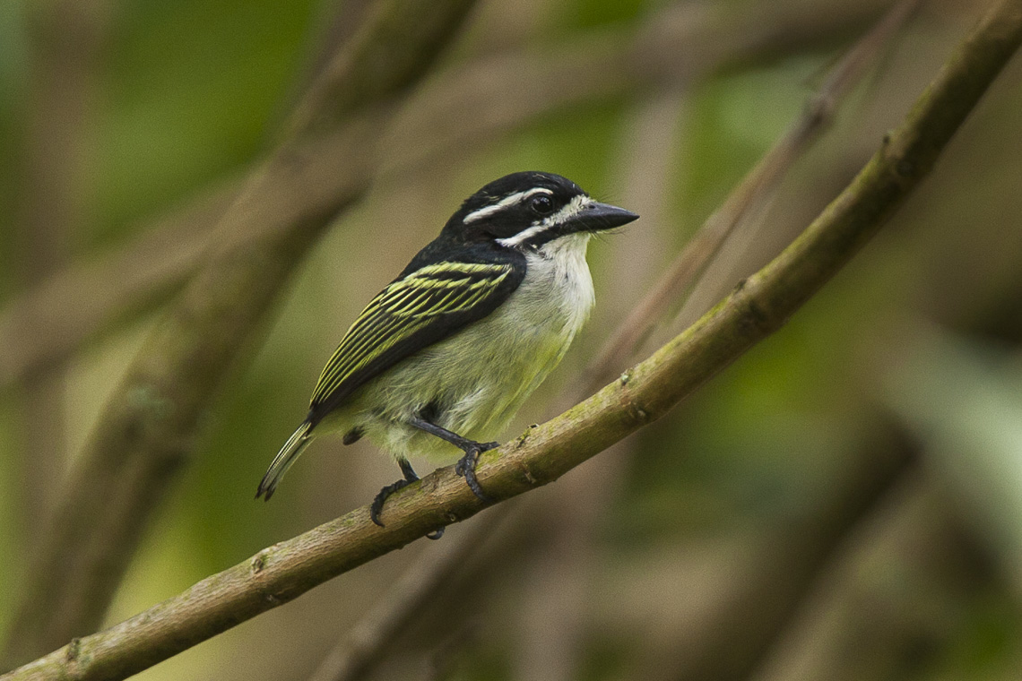 Yellow-rumped Tinkerbird - Uganda _H8O4976